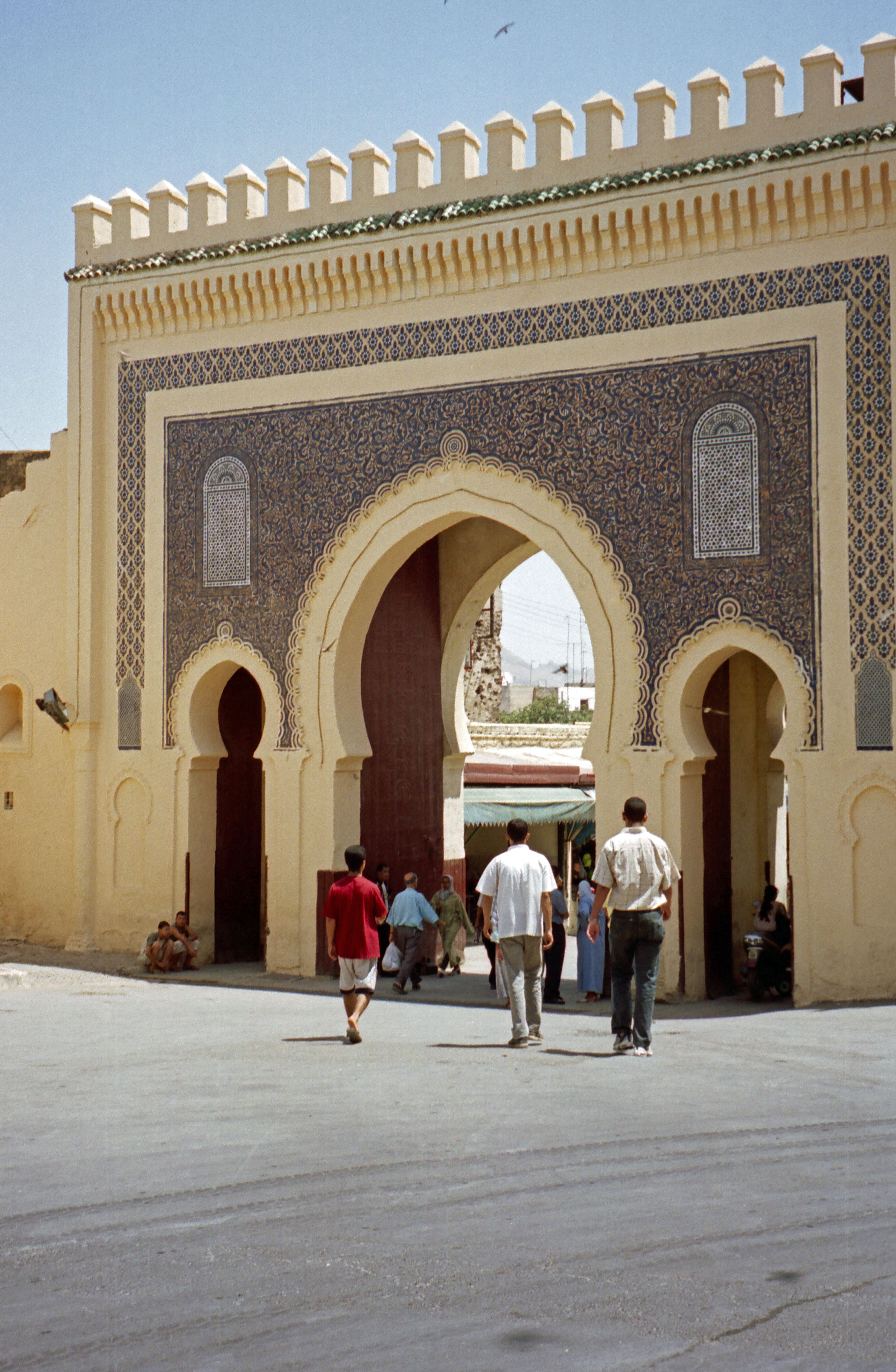 The Boujeloud Gate is one of the entrances into the Fez Medina, a labyrinth of sloping, winding alleyways that are full of stalls and workshops. This is the famed Kissaria - the commercial center. A multitude of locally produced goods are on sale in this incredible maze. Fez, Morocce The Fez medina has been declared a World Heritage Site. The Fez medina is Morocco’s largest, some 2,700 acres.